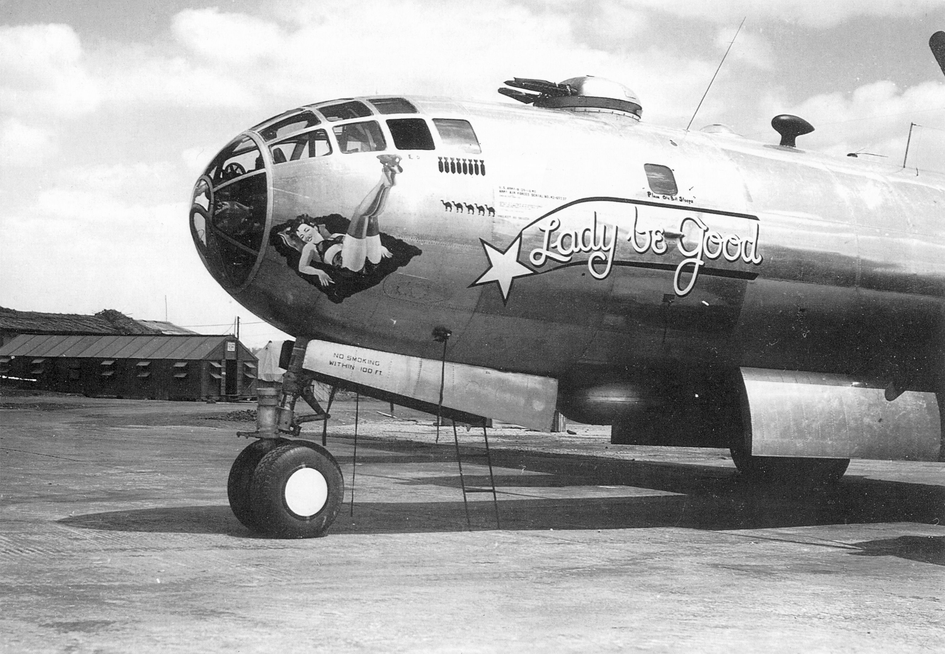 468th Bombardment Group Martin-Omaha B-29-15-MO Superfortress 42-65227 "Lady Be Good". Assigned to the 792d Bomb Squadron on 20 November 1944. The plane carried a "15" on its fuselage.